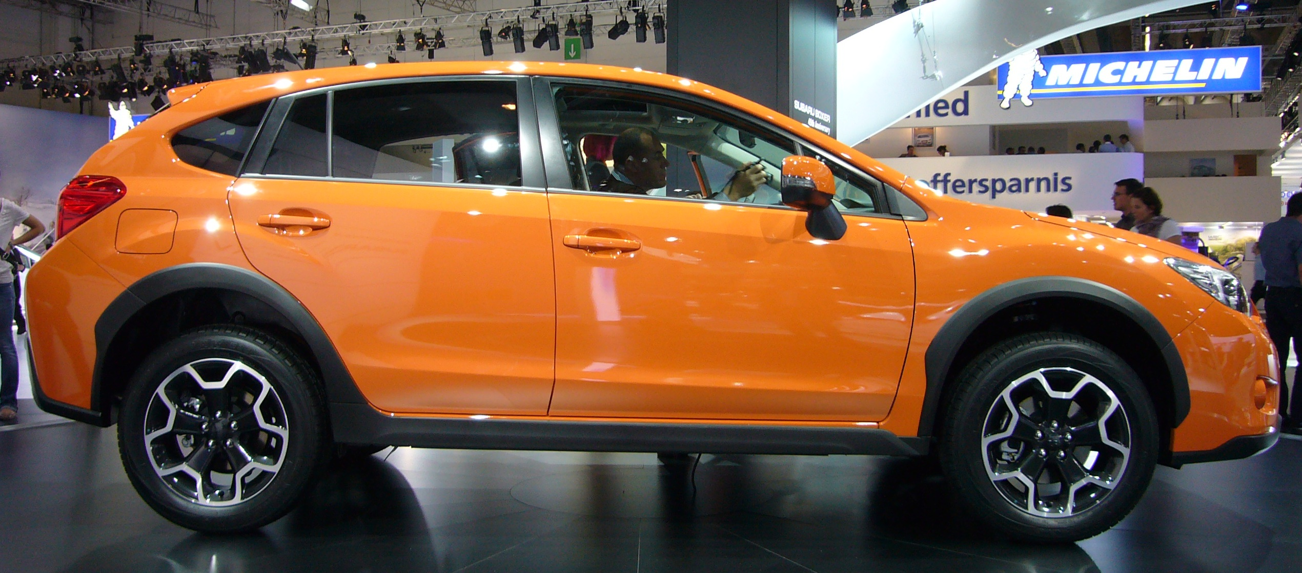 Subaru XV at IAA Frankfurt 2011